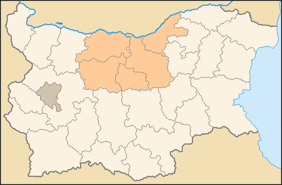 Region North-Central Bulgaria (The region North-Central consists of 5 districts: Veliko Turnovo, Gabrovo, Lovech, Pleven, Rousse)